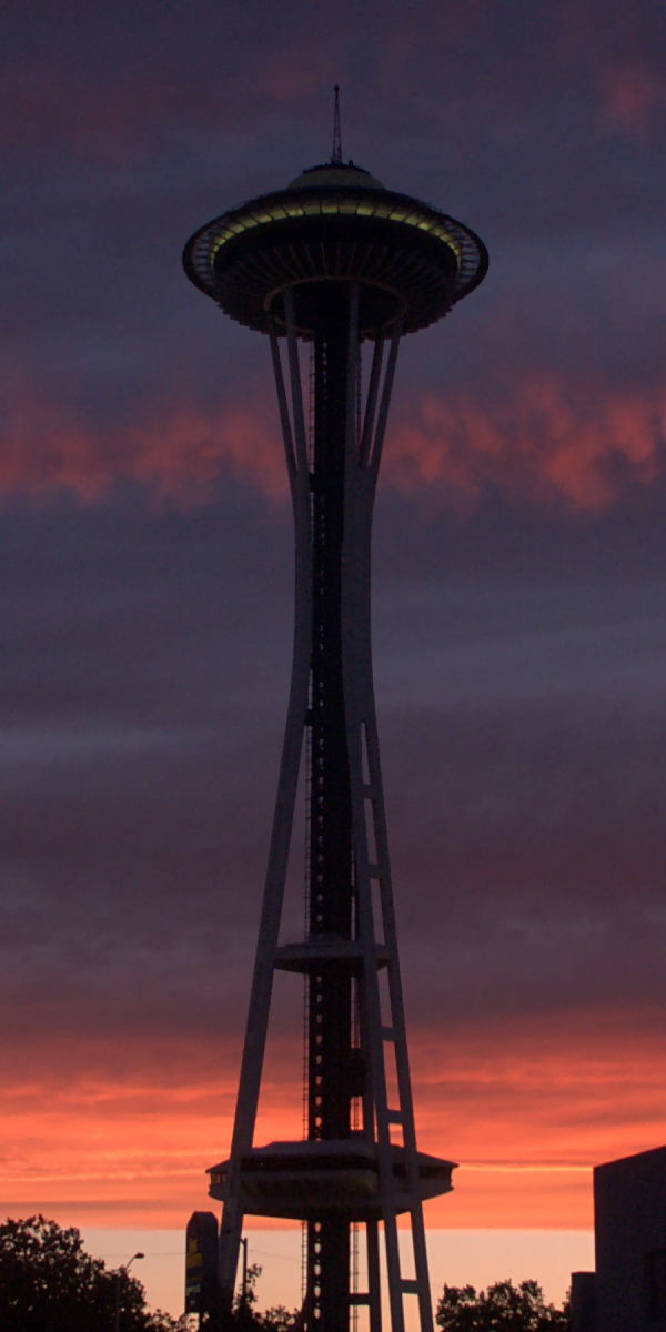 Space Needle, Seattle: evening, 2006-07-09.